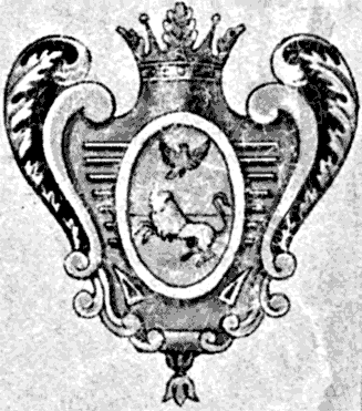 Coat of Arms of Belgorod and Belgorod Governorate. 1730.